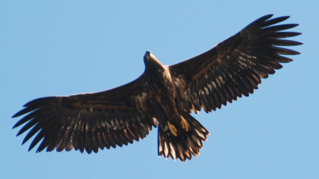 A juvenile White-tailed Eagle flying near its nest on Litløya, Norway.